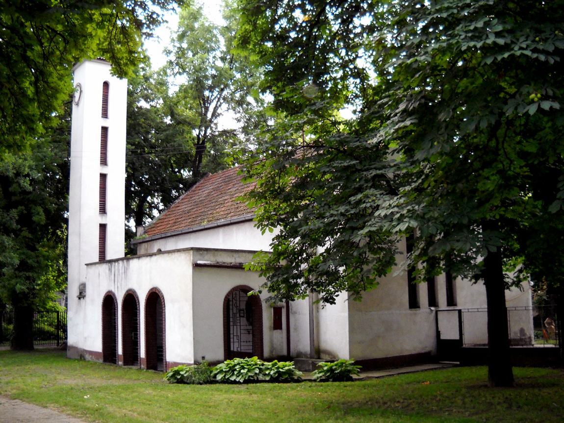 Western Orthodox or Old Catholic church of saint Antun in Petrovaradin.